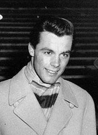 Toni Sailer at the 1956 Winter Olympics.